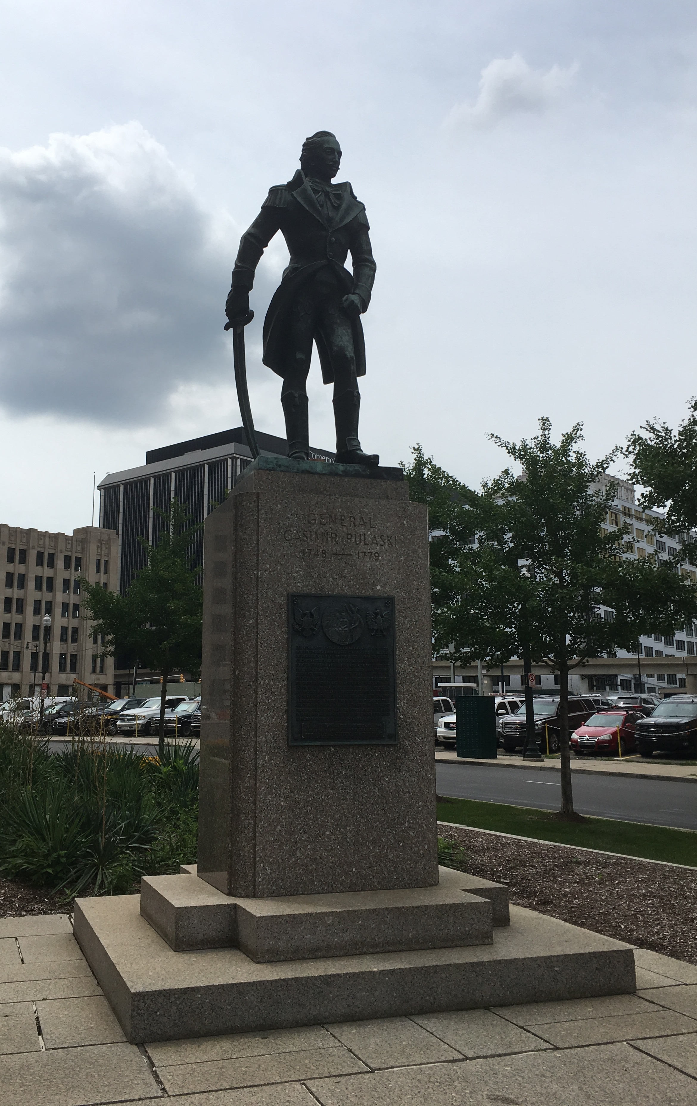 Casimir Pulaski statue at the corner of Michigan Avenue and Washington Boulevard, Detroit